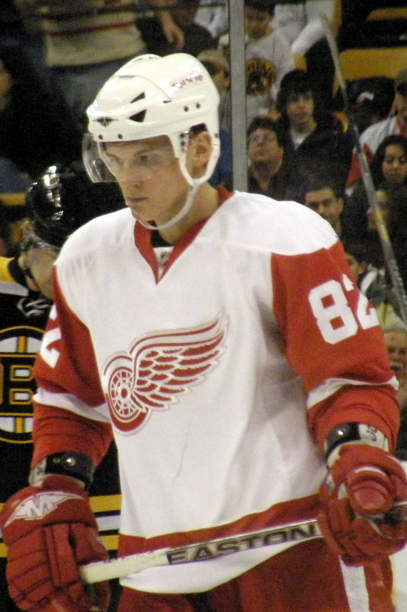 #82 Tomáš Kopecký (RW) of the Detroit Red Wings